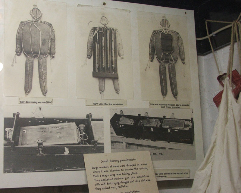 Paratrooper dummy "Rupert" used during the D-day. From the Merville Bunker museum in France. 2006. /PAJ